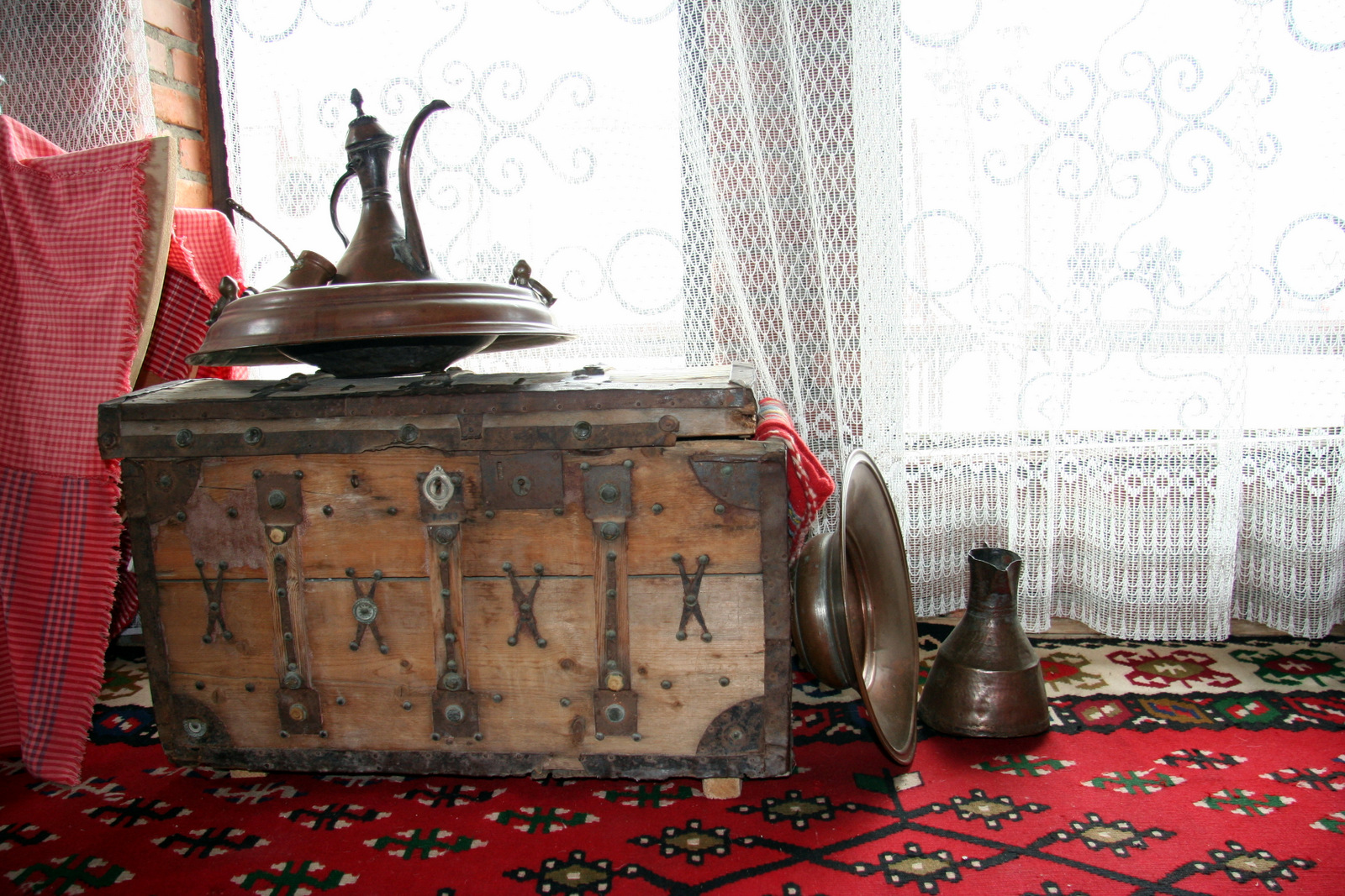 Etnological Items Kosovo - Handmade